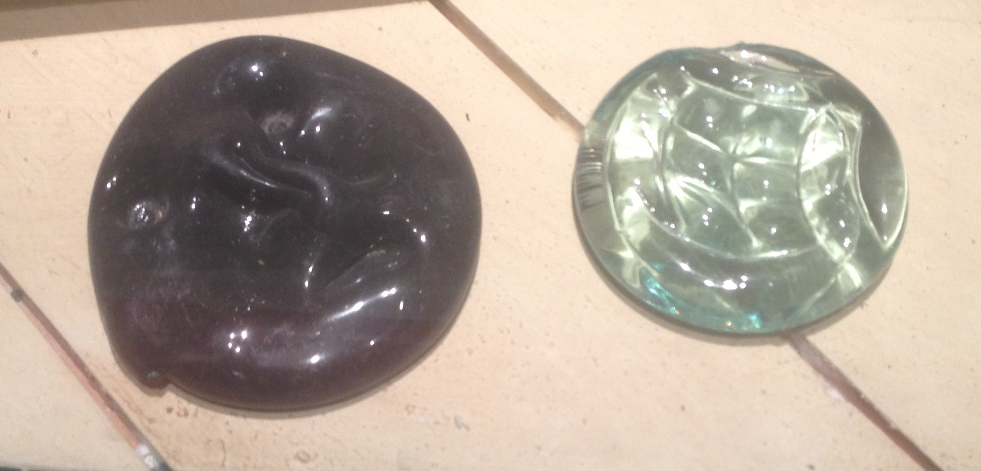 Hopsctoch stones made of glass at Sunderland Museum and Winter Gardens.